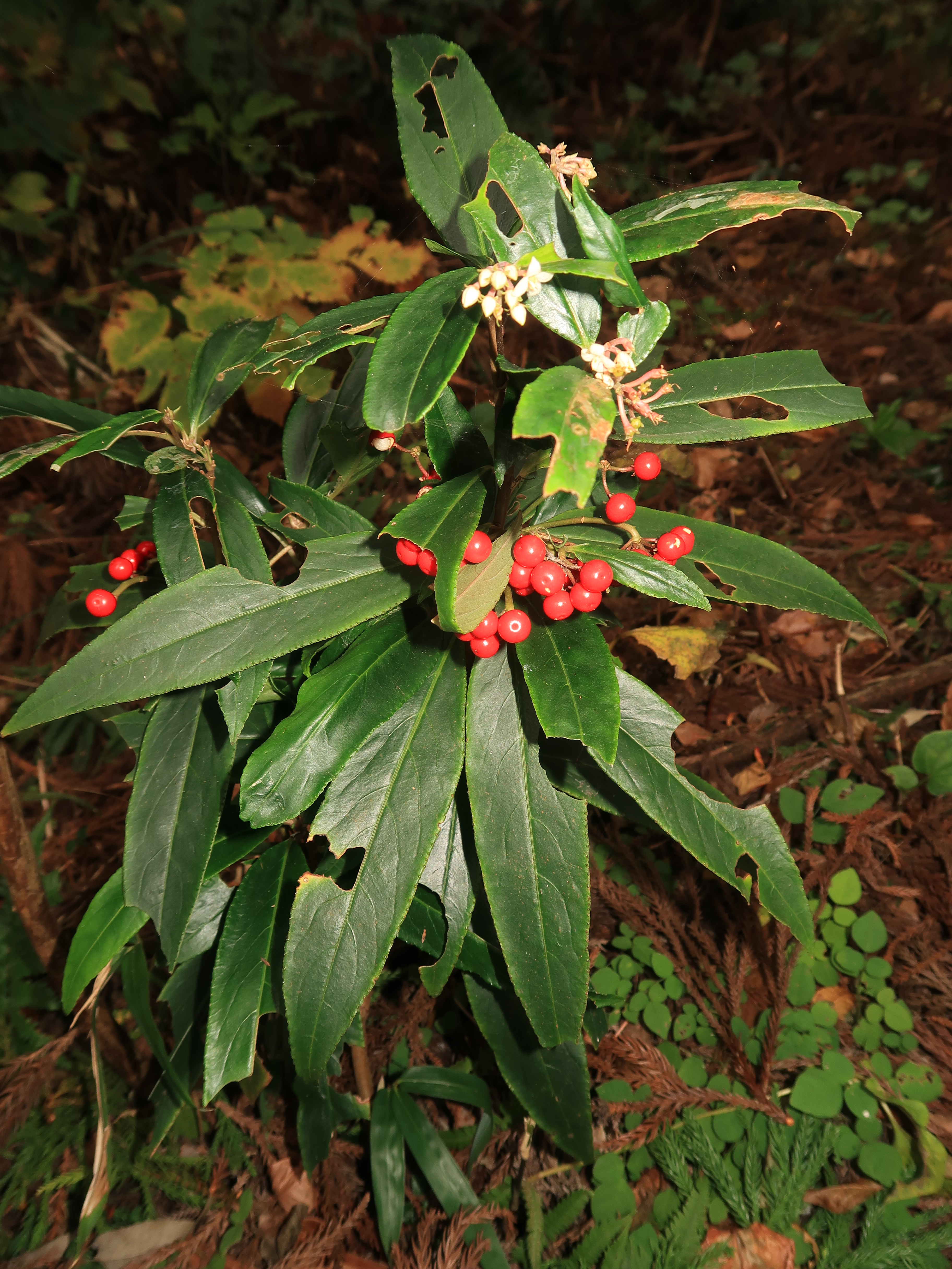 Ardisia crispa, Hama-dori area, Fukushima pref., Japan